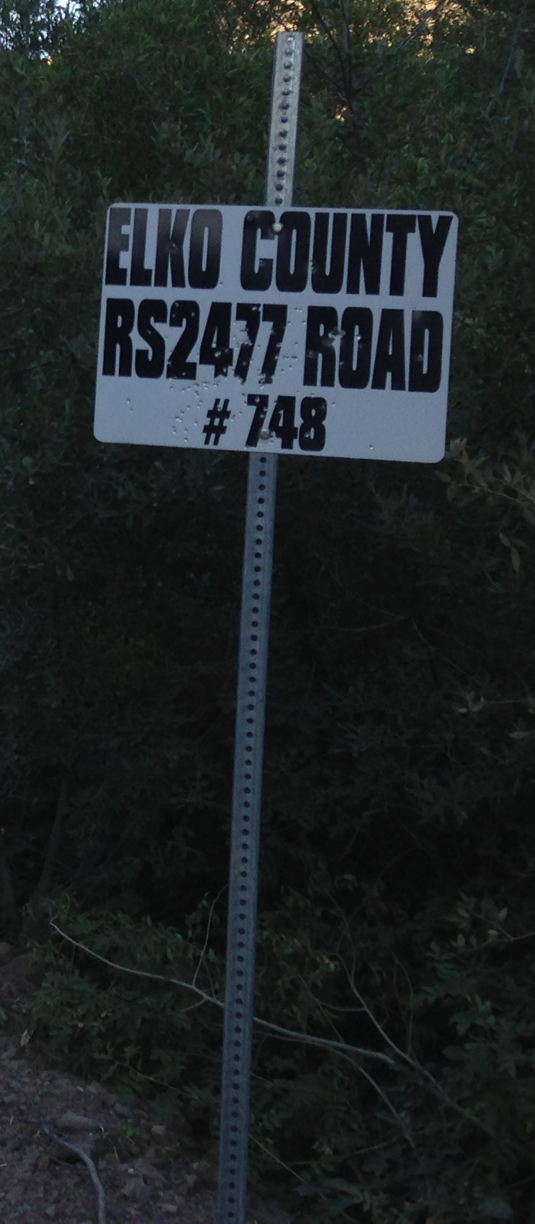 Sign for Elko County Route 748 along southbound Charleston-Jarbidge Road (Elko County Route 748) about 30 miles north of Charleston in Elko County, Nevada-cropped